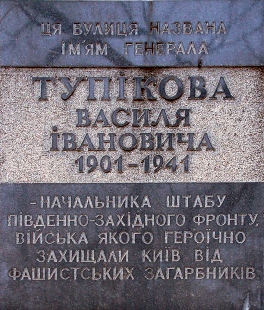 A plaque to Tupikova Vasilia Ivanovicha in Kiev